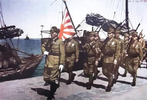 Landing of the Japanese army in Guangzhouwan Bay (French: Kouang-Tchéou-Wan